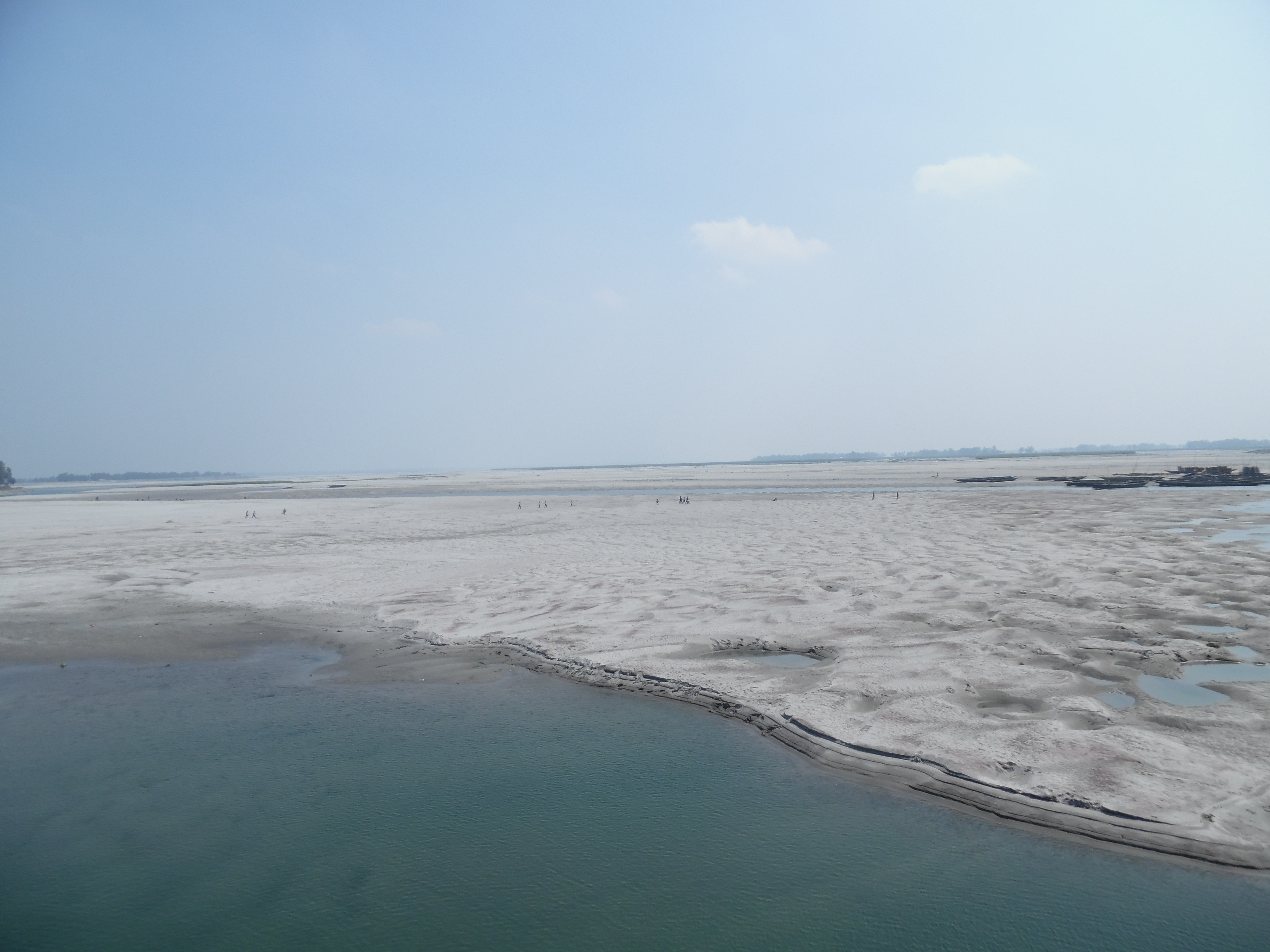 View of the Teesta river from Teesta Bridge on 01.03.2019. Downstream. Bangladesh.